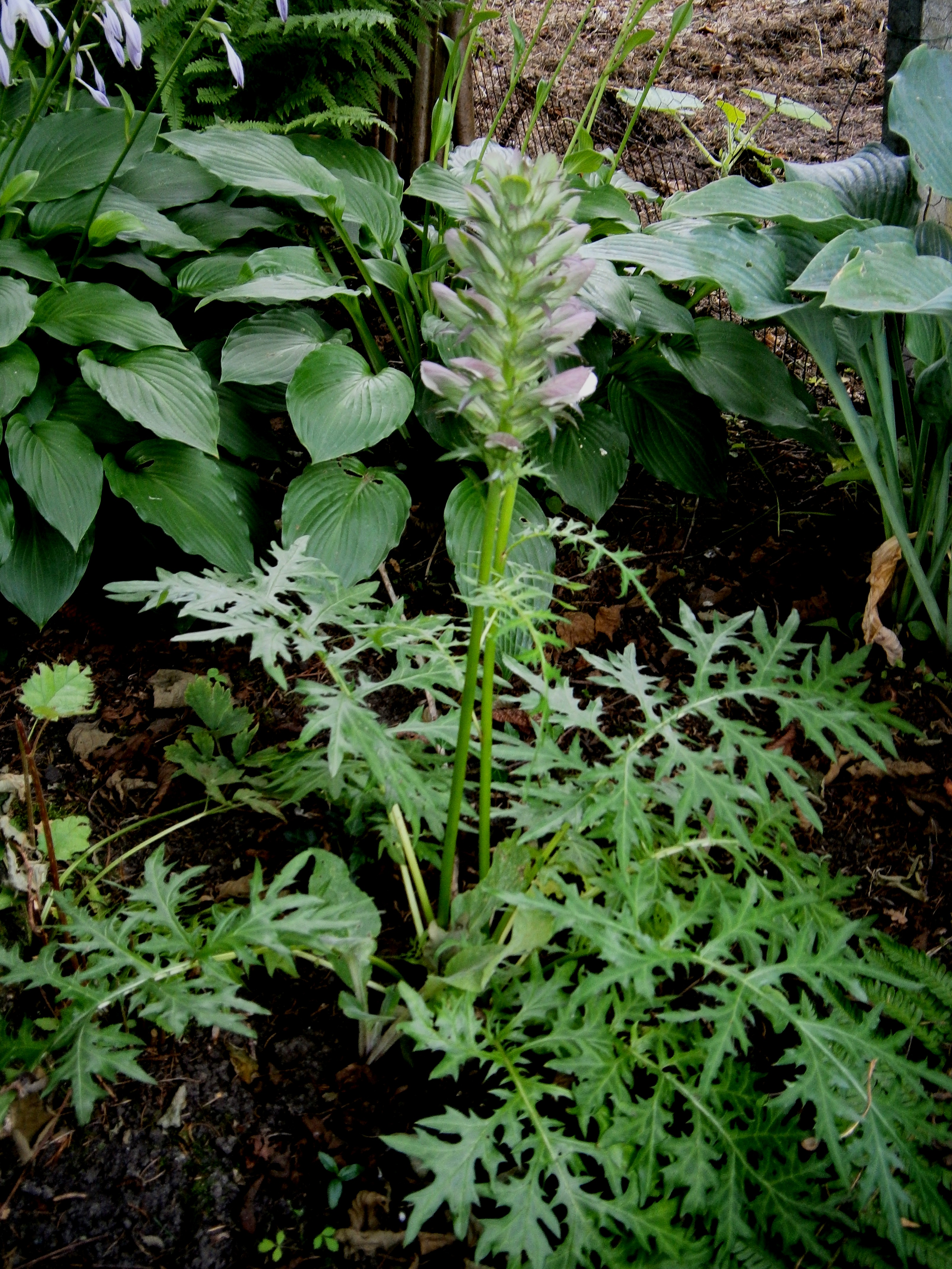 Acanthus spinosus opening